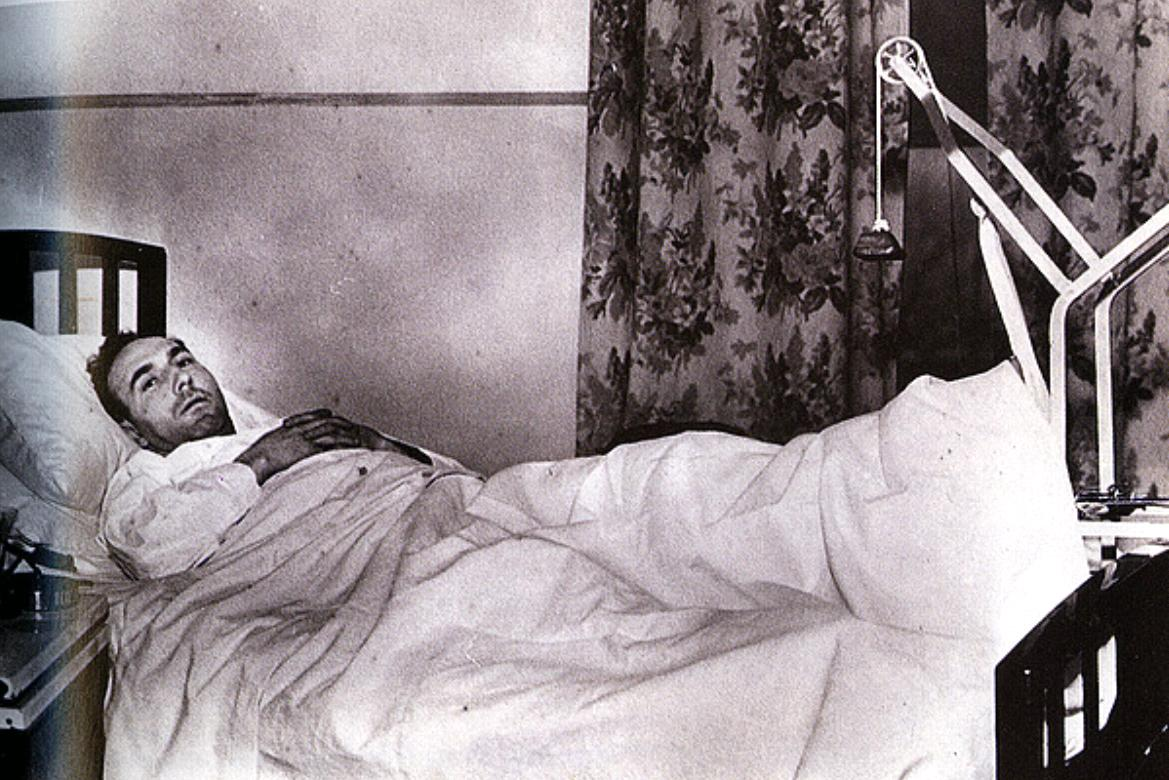 Howie Morenz, centre of the Montreal Canadiens of the and NHL from 1923 to 1934 and again from 1936 to 1937. This photo is after he broke his leg in a January 28, 1937 game. He would ultimately die on March 8, 1937 from complications relating to the injury.